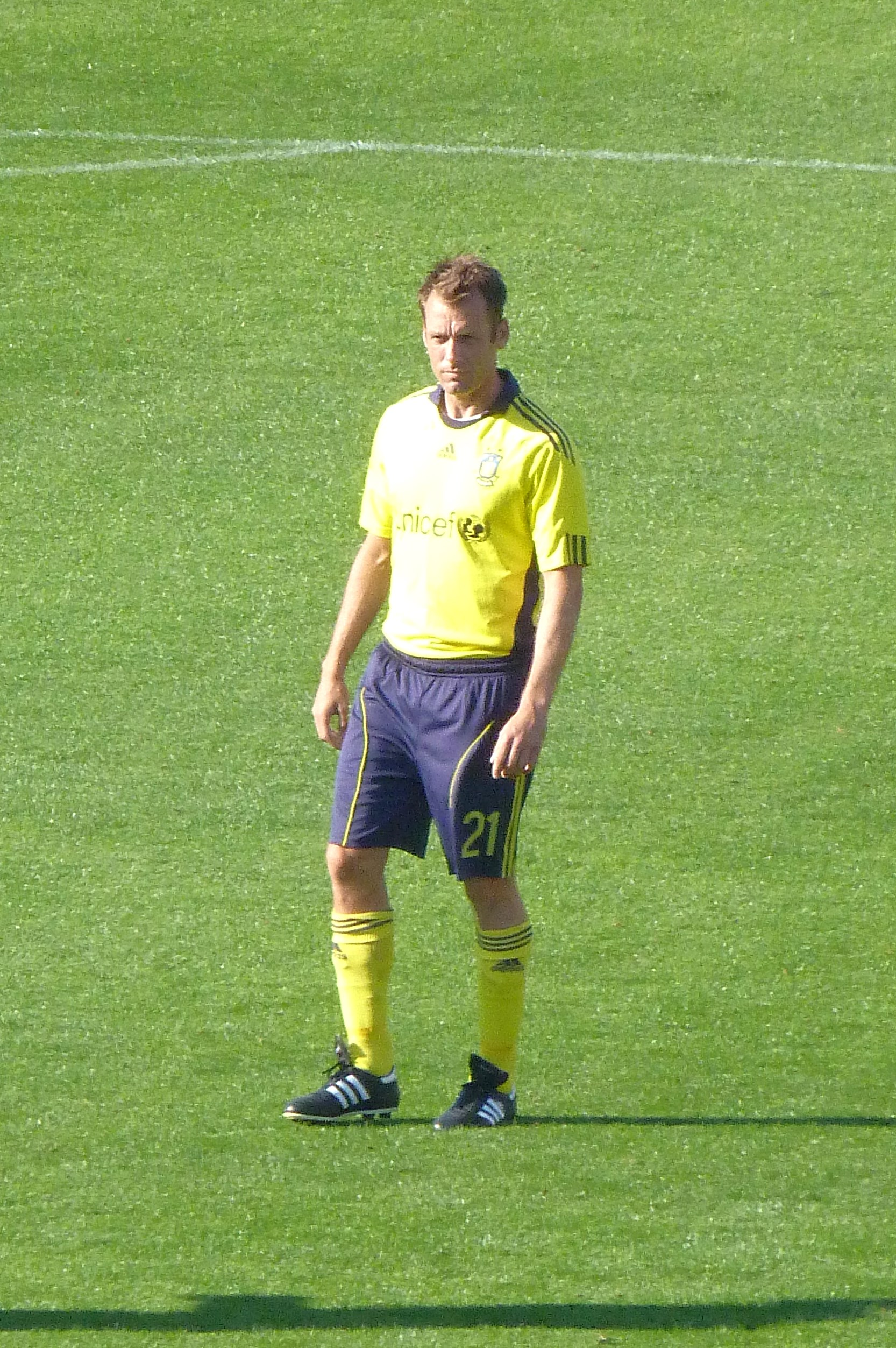 Thomas Rasmussen as Player from Bröndby IF